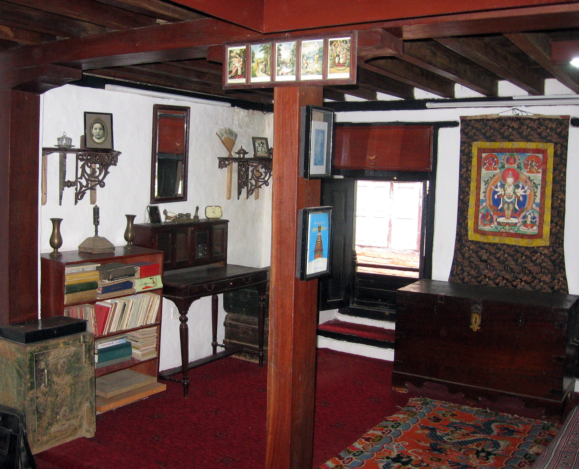 Room of Nepalese poet Chittadhar Hridaya in his house which has been converted into Chittadhar Hridaya Memorial Museum.